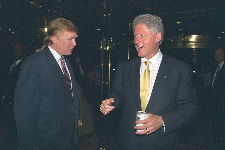 Donald Trump with Bill Clinton at Trump Tower in 2000